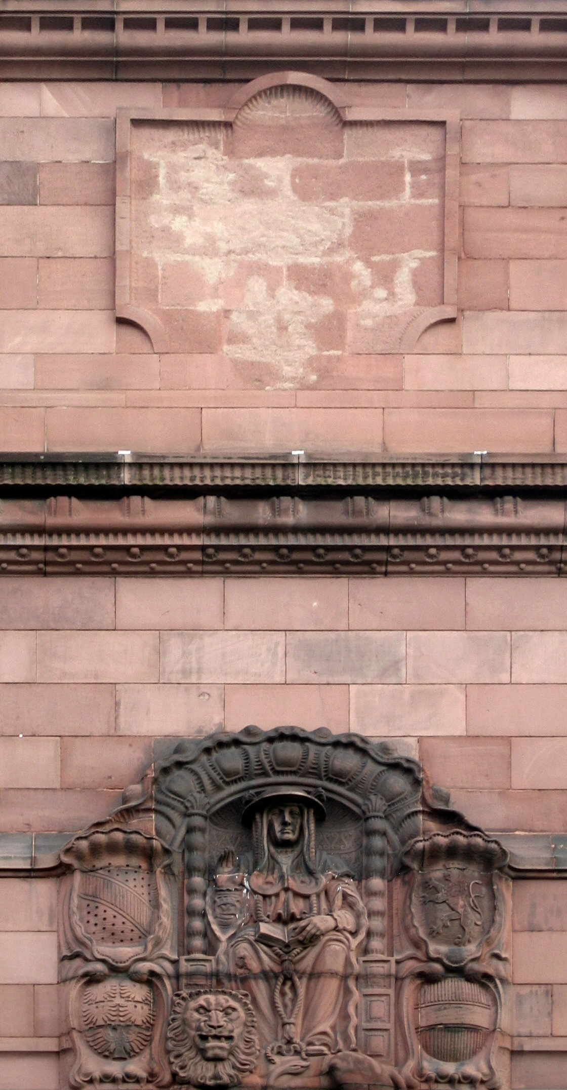 Description: Place at the wall of the university building where the eagle of the Third Reich once hung Source: self-made Date: 14.01.2008 Author: Manfredjohannes